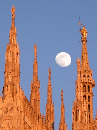 Moon above the cathedral of Milan on 10 feb 2006.